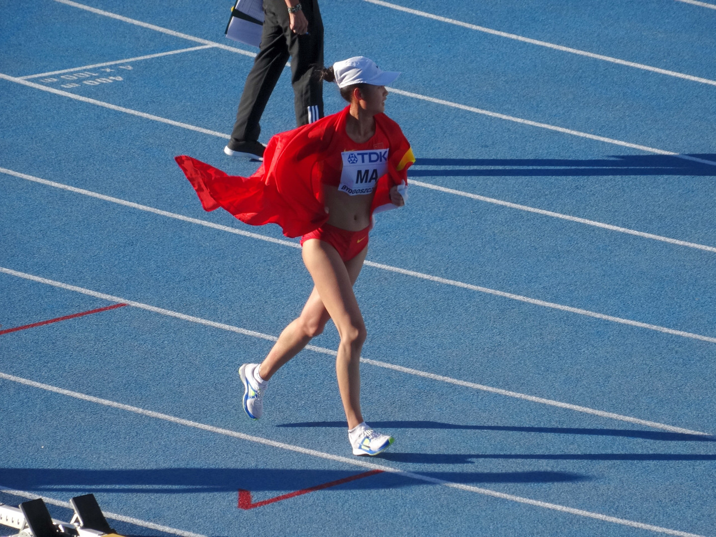 2016 IAAF World U20 Championships in Bydgoszcz, 10000m walk women